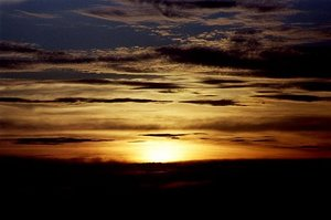 Sunrise